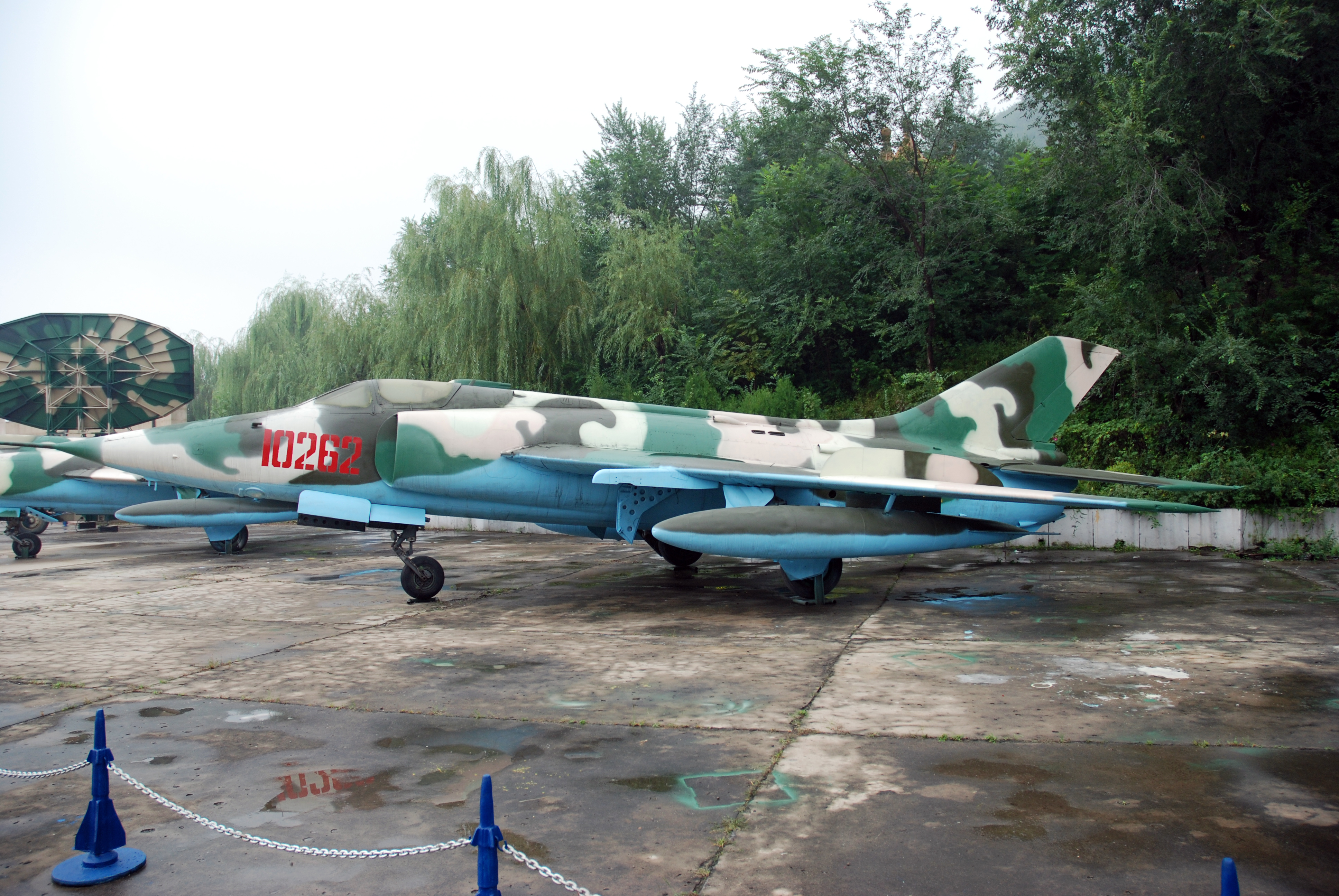 China Aircraft Museum,Sep 2008